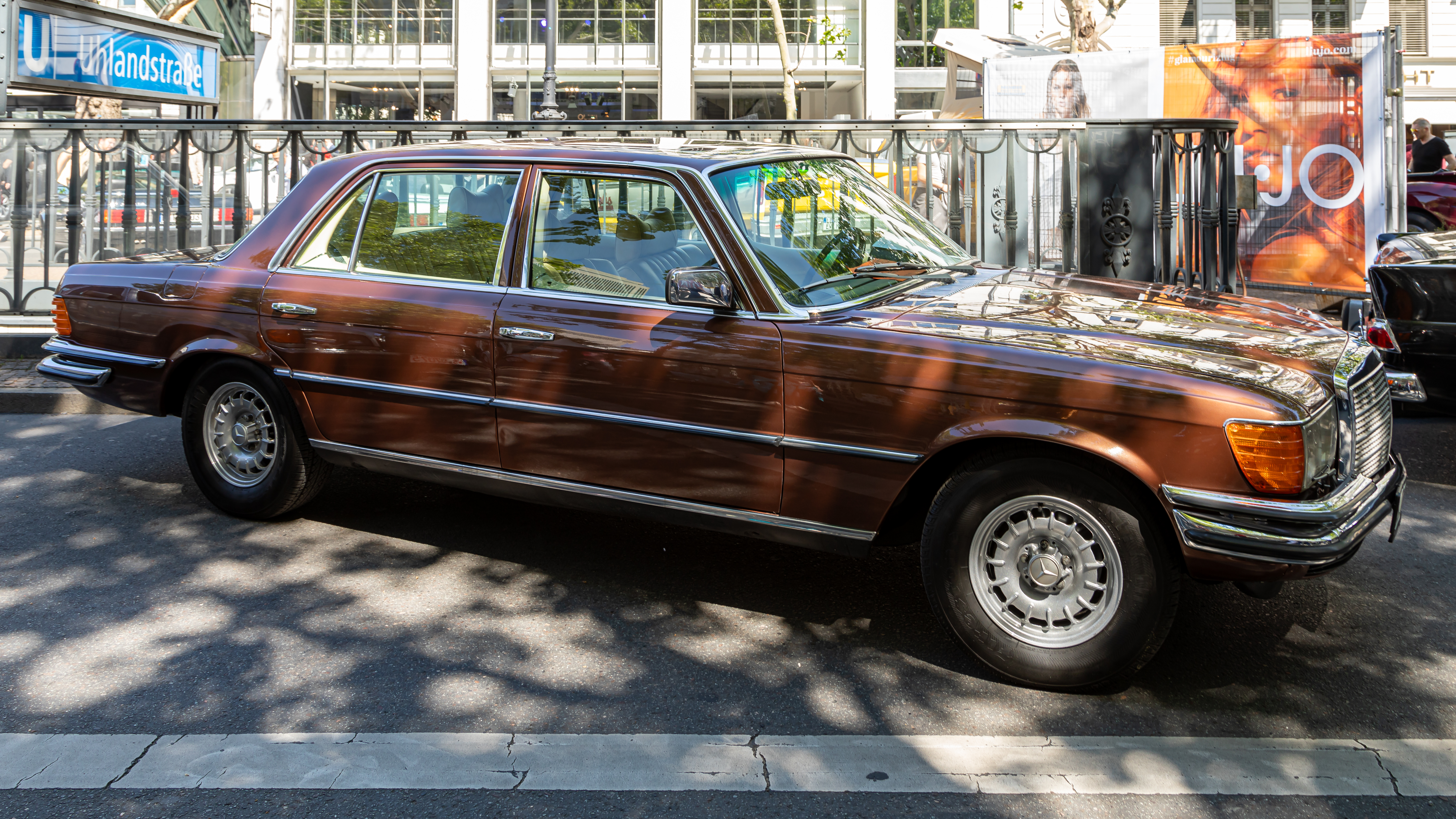 Classic Days Berlin 2019, Kurfürstendamm, Berlin-Charlottenburg